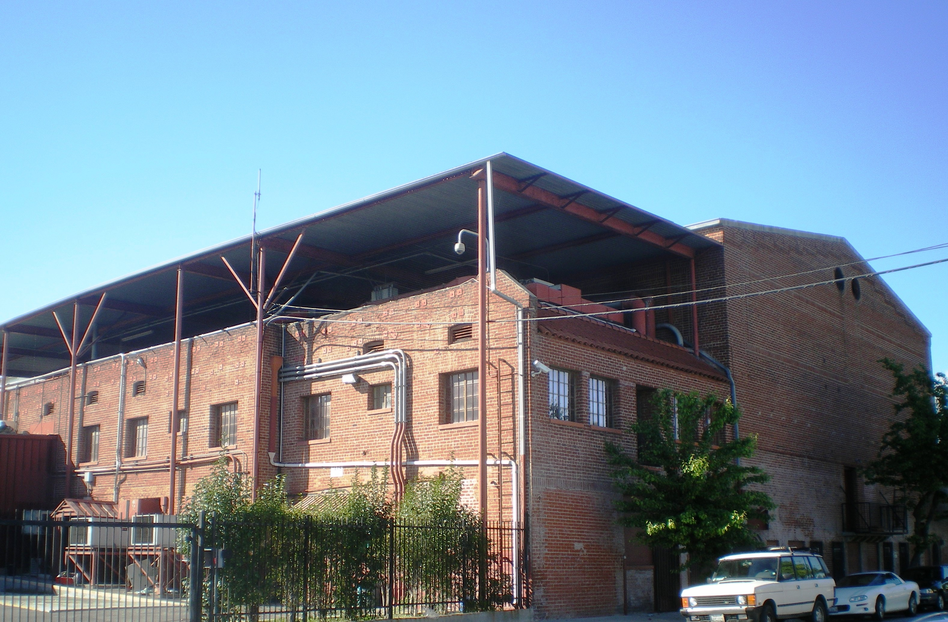 KCET Studios, 4376 Sunset Boulevard, Hollywood, Los Angeles, California